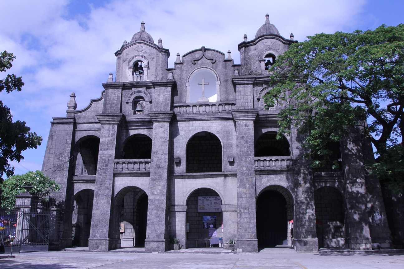 Santuario del Sto Cristo - Front Facing